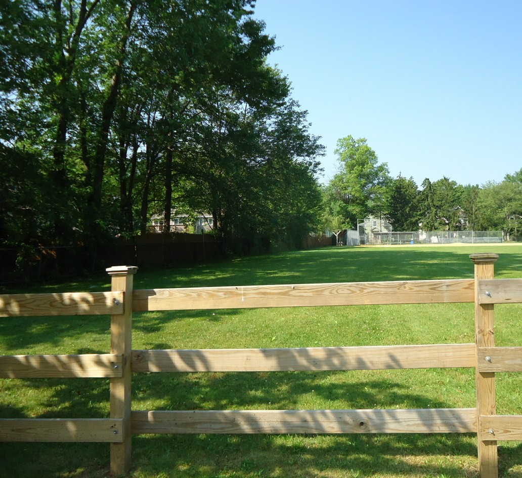 Ballfield and grassy stretch in Berkeley Heights, New Jersey.